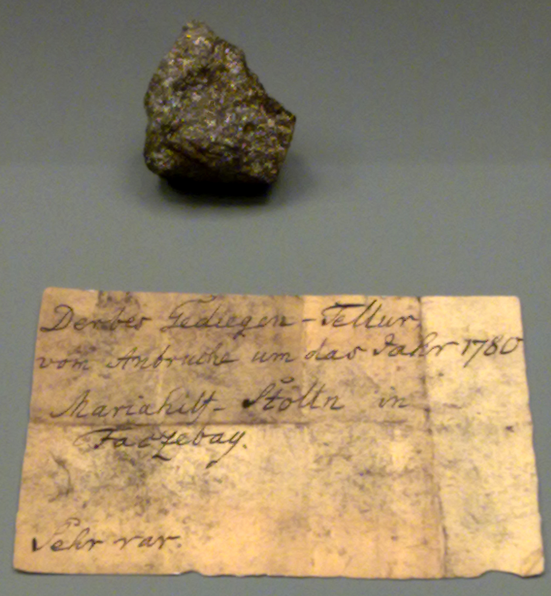 Original type specimen of tellurium shown at the Museum für Naturkunde in Berlin